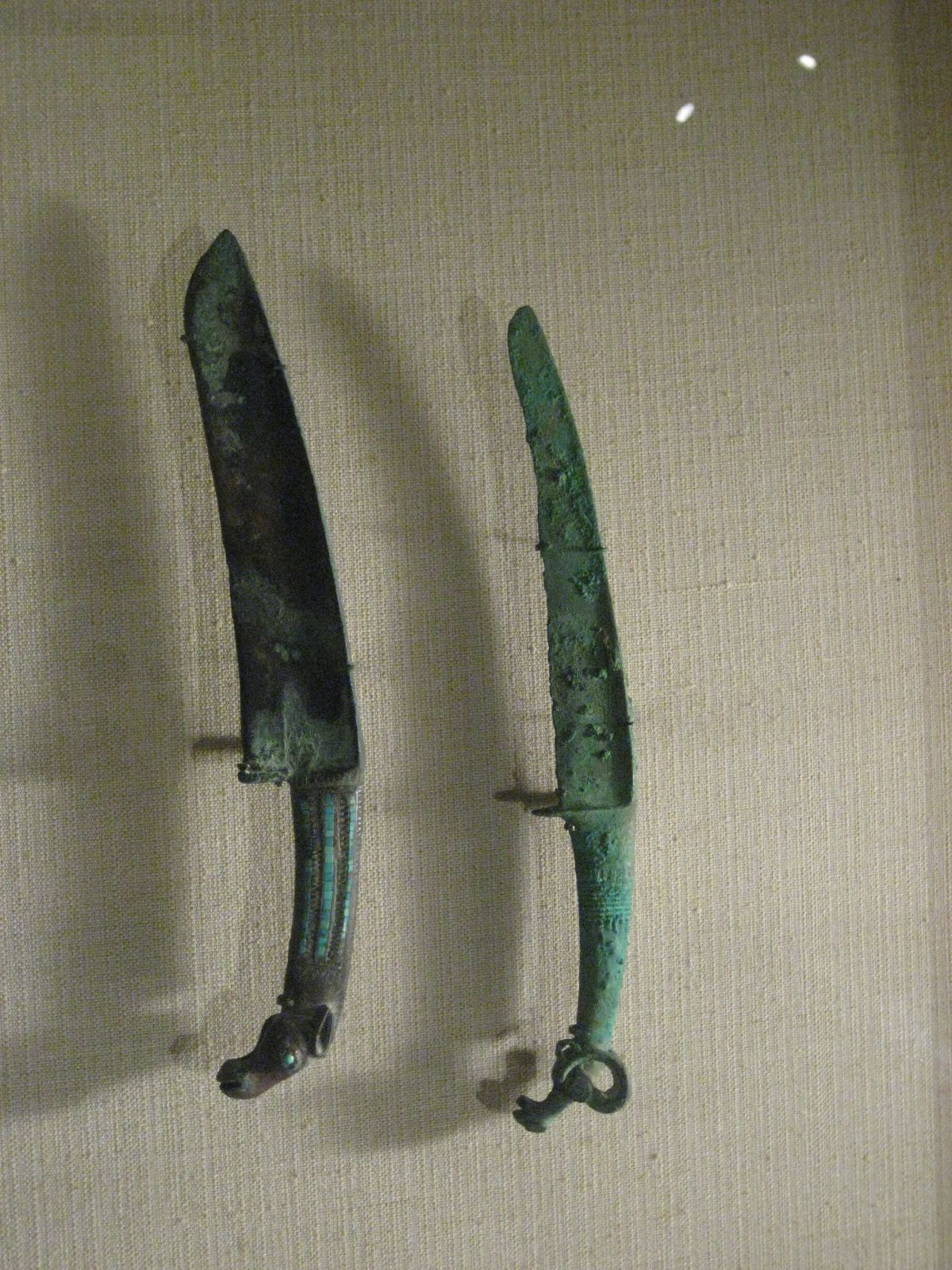 Top: Animal Head Knife Shang dynasty (ca 1600 - 1046 BC), 11th century BC Bronze inlaid with turquoise Bottom: Knight with Ram's Head Shang dynasty (ca. 1600 - 1046 BC), 12th - 11th century BC Bronze inlaid with turquoise